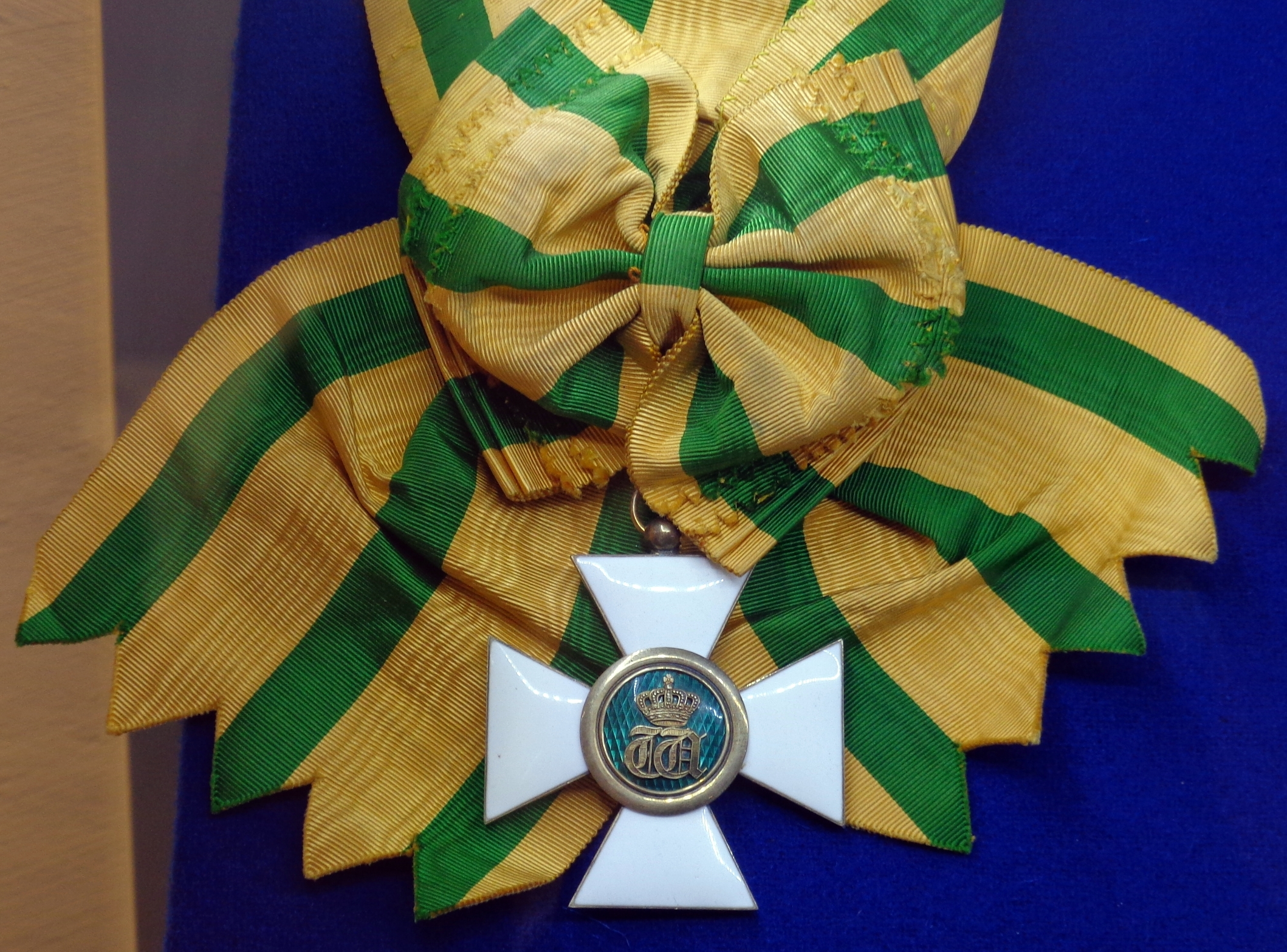 Order of the Oak Crown, badge and sash of Grand Cross, c.1970. Luxembourg. The exhibition of the Tallinn Museum of Orders of Knighthood, Estonia.